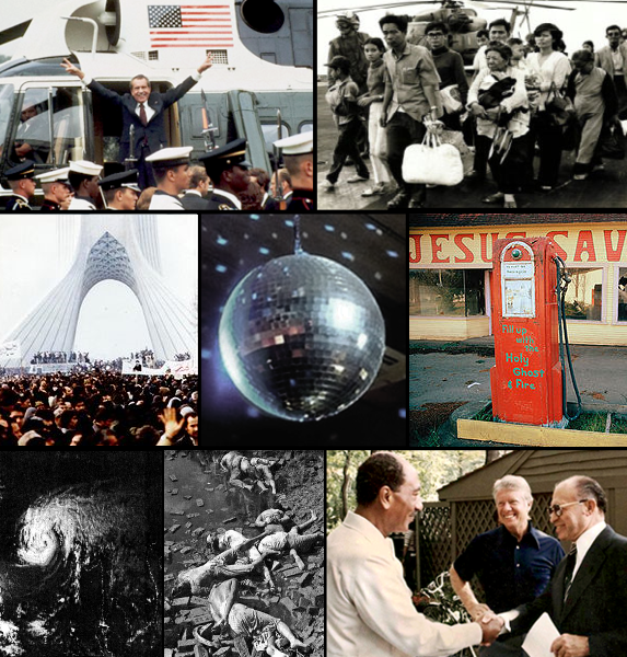 A montage of notable events in the 1970s.